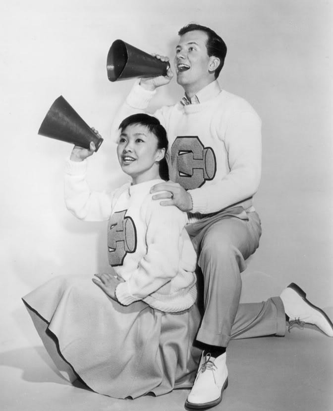 Publicity photo of Pat Suzuki and Pat Boone from the television program Pat Boone Chevy Showroom.